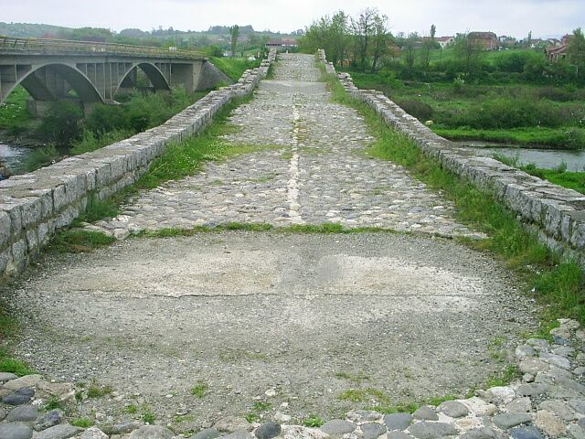 Terzijski Bridge, Kosovo